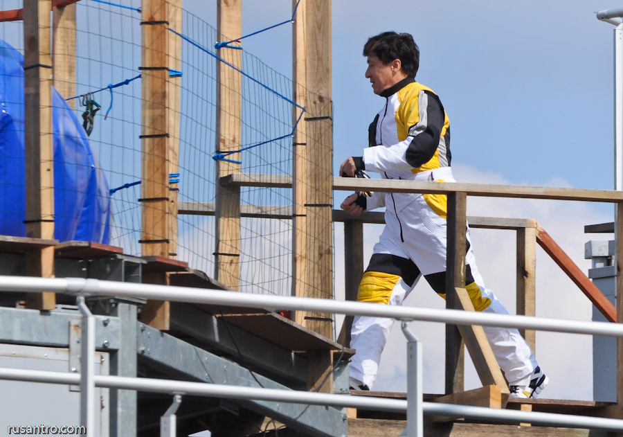 Jackie Chan on the set of Chinese zodiac (April 24, 2012, Jelgava)